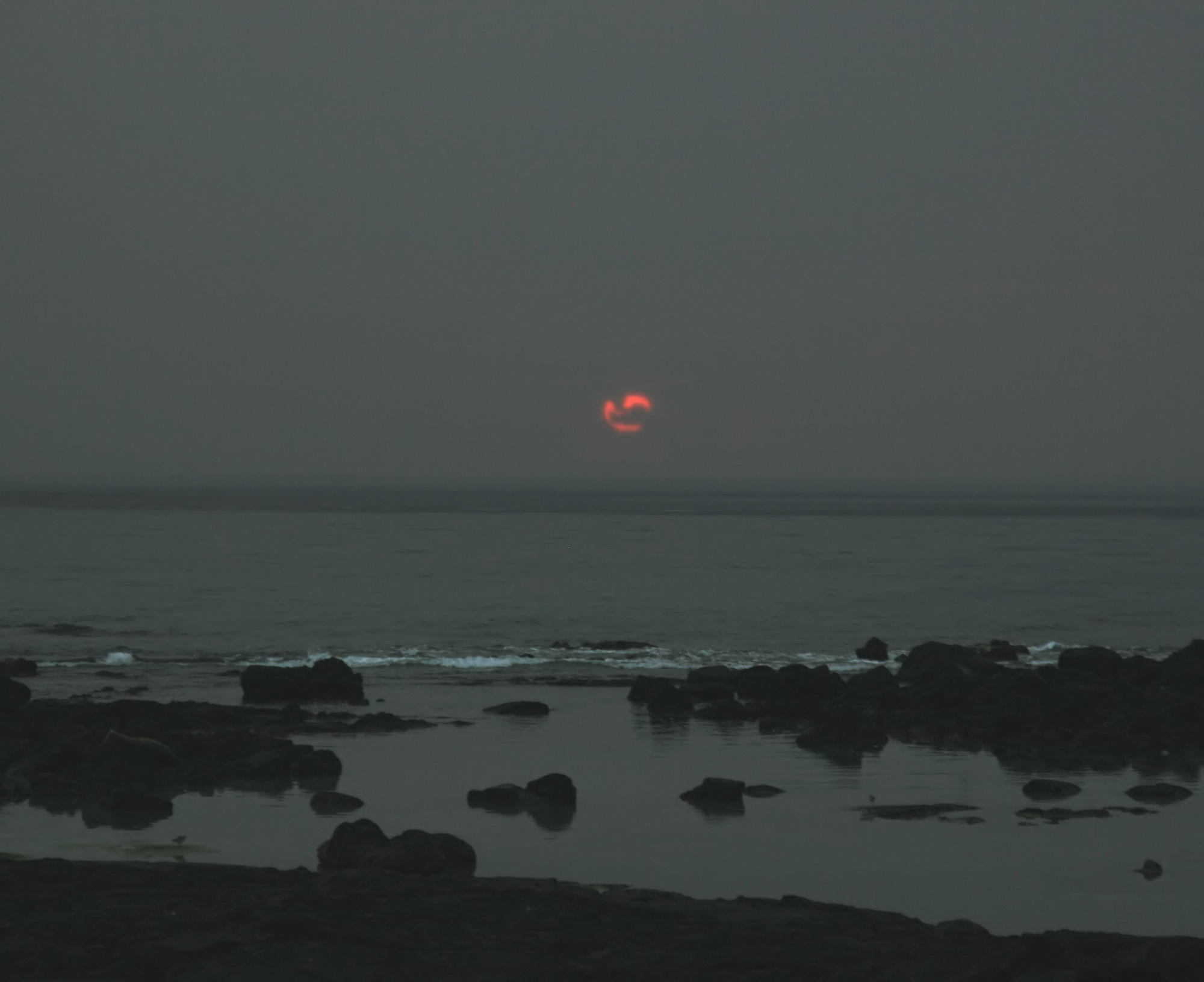 This sunset seems cloudless. So where did this strange shape of the sun came from? The thing is that there are clouds, which cannot be seen on the image because of the vog. On the other hand the sun, which of course is very bright is seen behind the vog, but not behind the clouds. Some parts of the sun are seen, while some are not and this combination - the clouds, vog and the sun produced this amazing scenery.